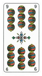 Saxonian deck - 9 of Bells